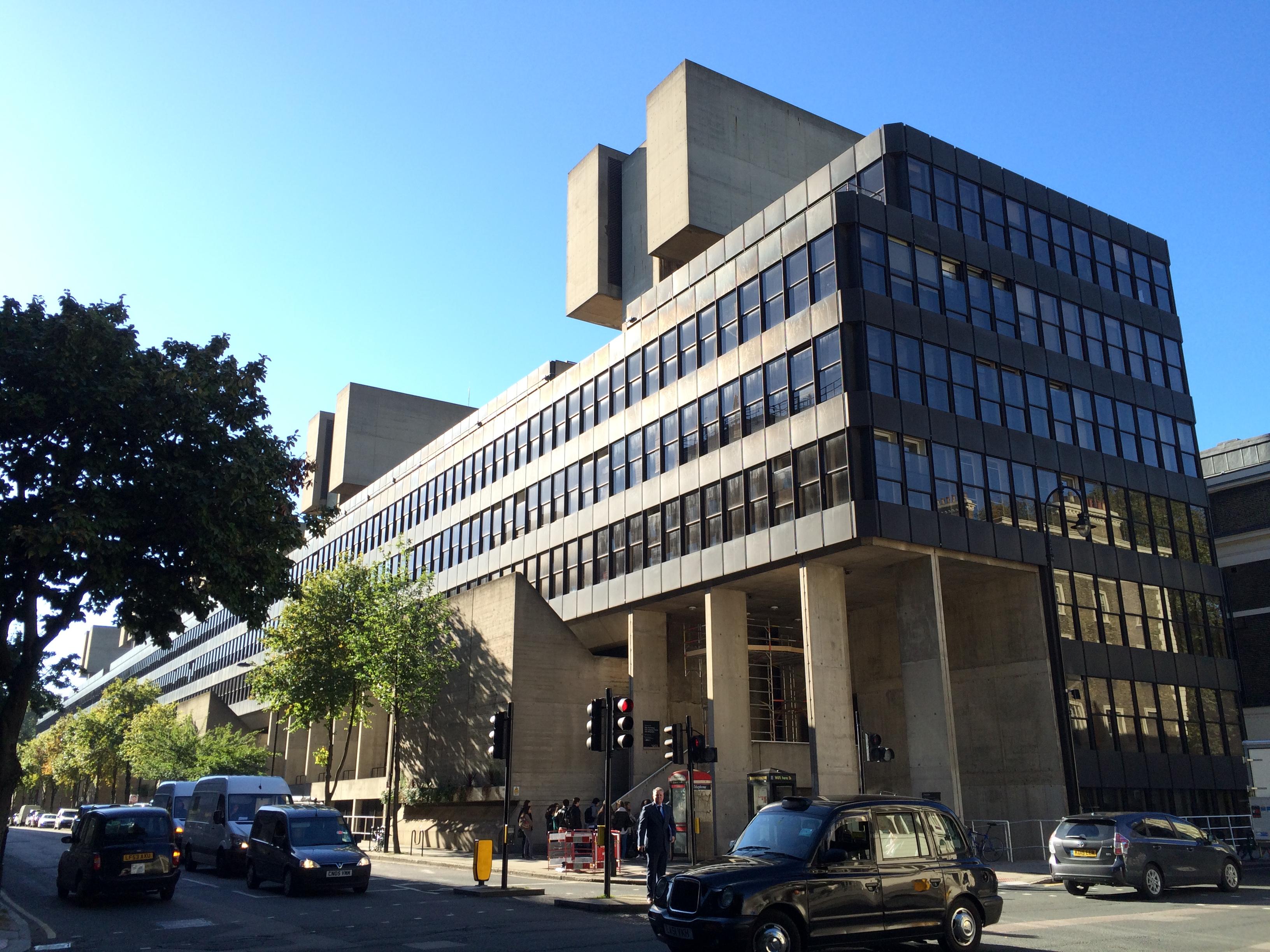 the UCL Division of Psychology and Language Sciences if based at 26 Bedford Way in Bloomsbury, London